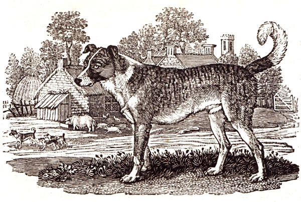 Bandog illustration depicted in 'A General history of quadrupeds' by Thomas Bewick (1753-1828).